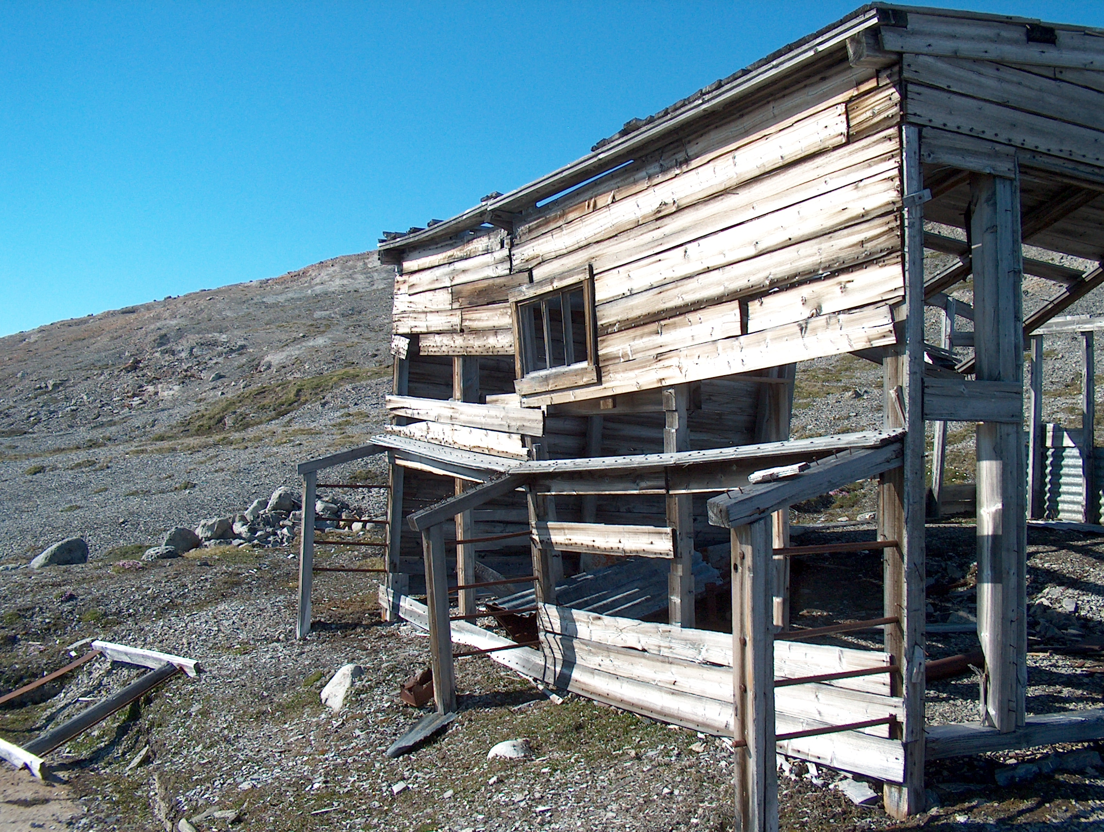 Remains of the marble mining settlement at Ny-London on Blomstrandhalvøya near Ny-Ålesund, Svalbard.